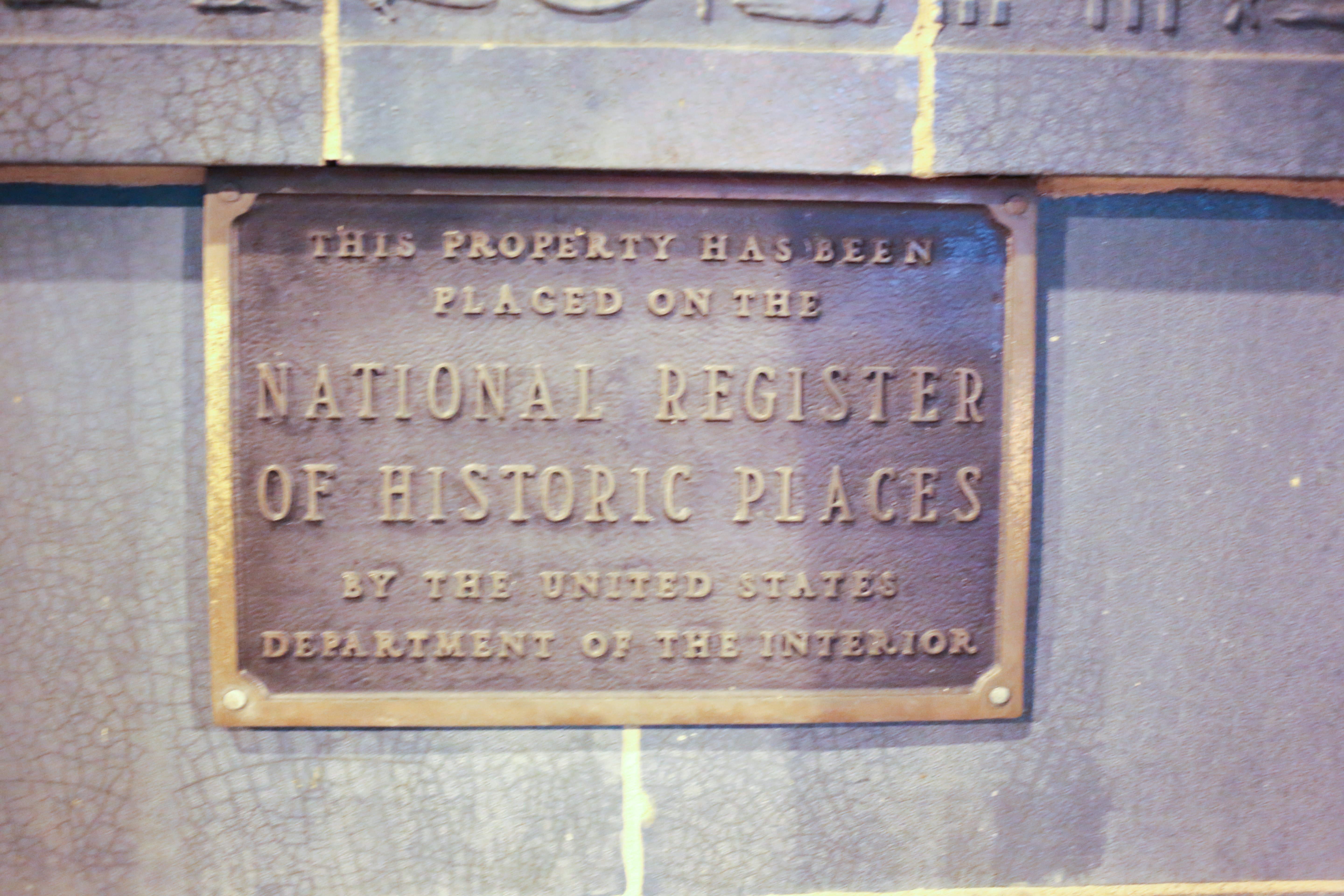 Reebie Storage National Register of Historic Places marker, Chicago September 2, 2013